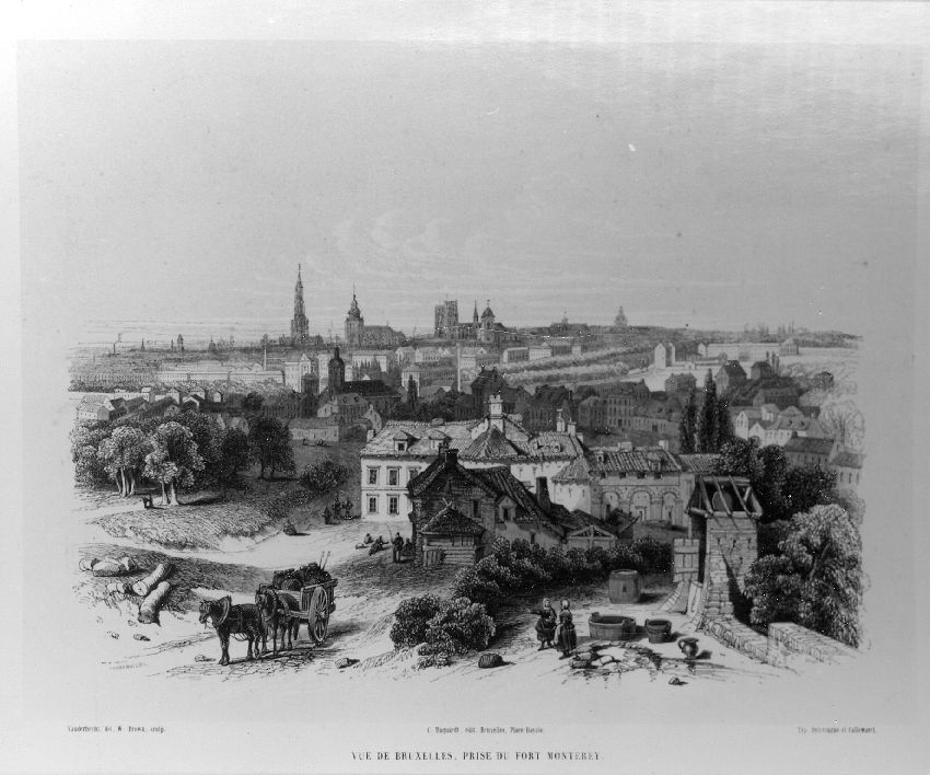 View of Brussels from Monterey fort (part of Vues pittoresques de la Belgique et de ses monuments les plus remarquables, dessinées et gravées sur bois par les premiers artistes de Bruxelles, Brussels-Leipzig, C. Muquardt, s.d.: 24 lithos, 33,7 x 25 cm)